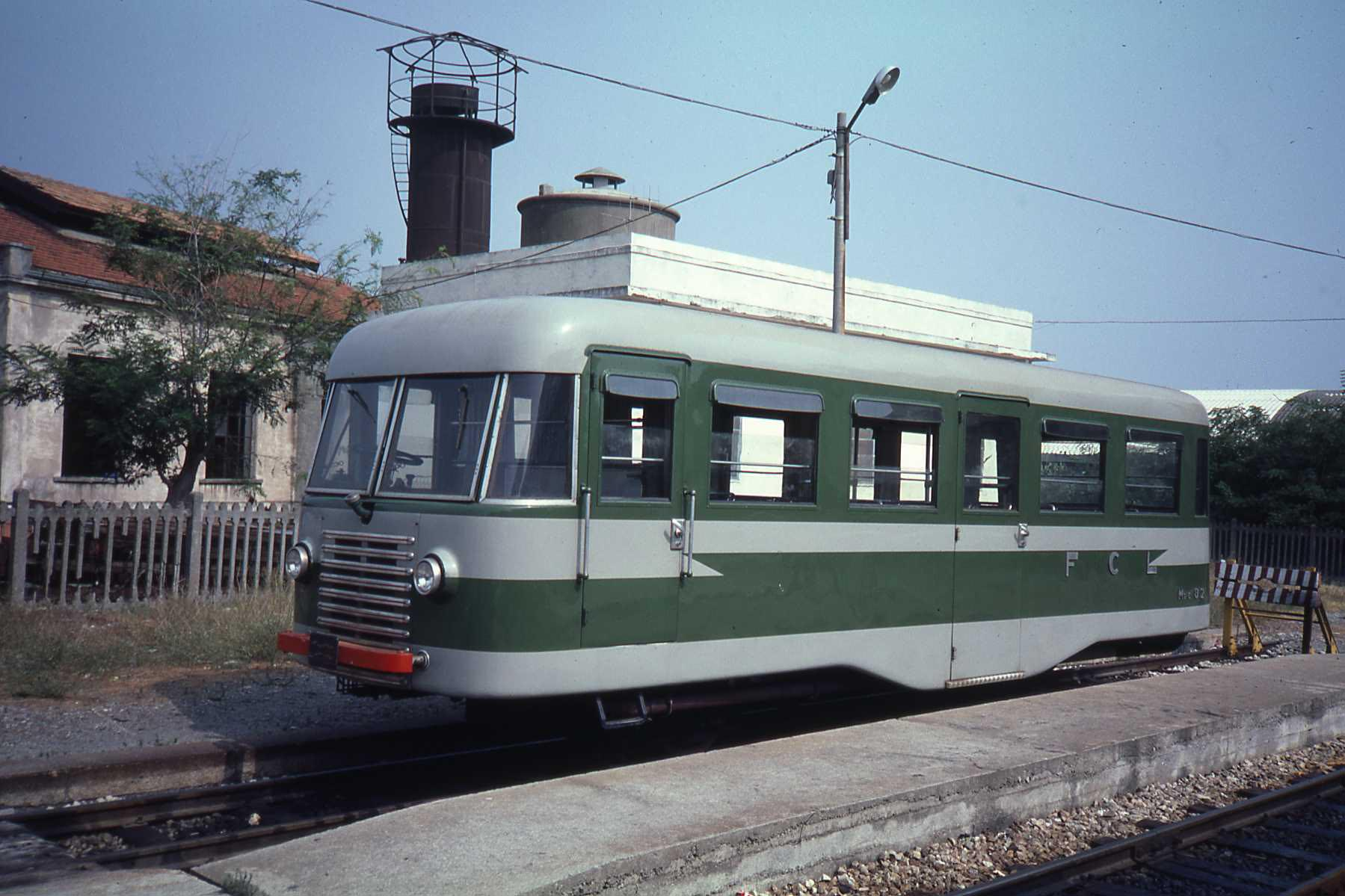 Ferrovie Calabro Lucane (FCL) rack raylway railcar number M1c 82 serie M1 with bus elements. Has only one driving position and is turned around at termini by its own built-in turntable. This has to be done by hand! station: Catanzaro Lido